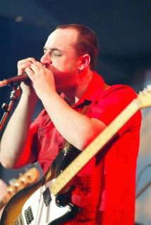 William Rogue at the Grand Ole Opry in Glasgow April 11, 2004.